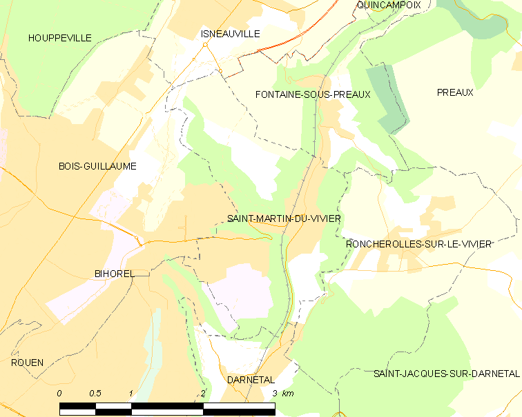 Map of French municipality Saint-Martin-du-Vivier